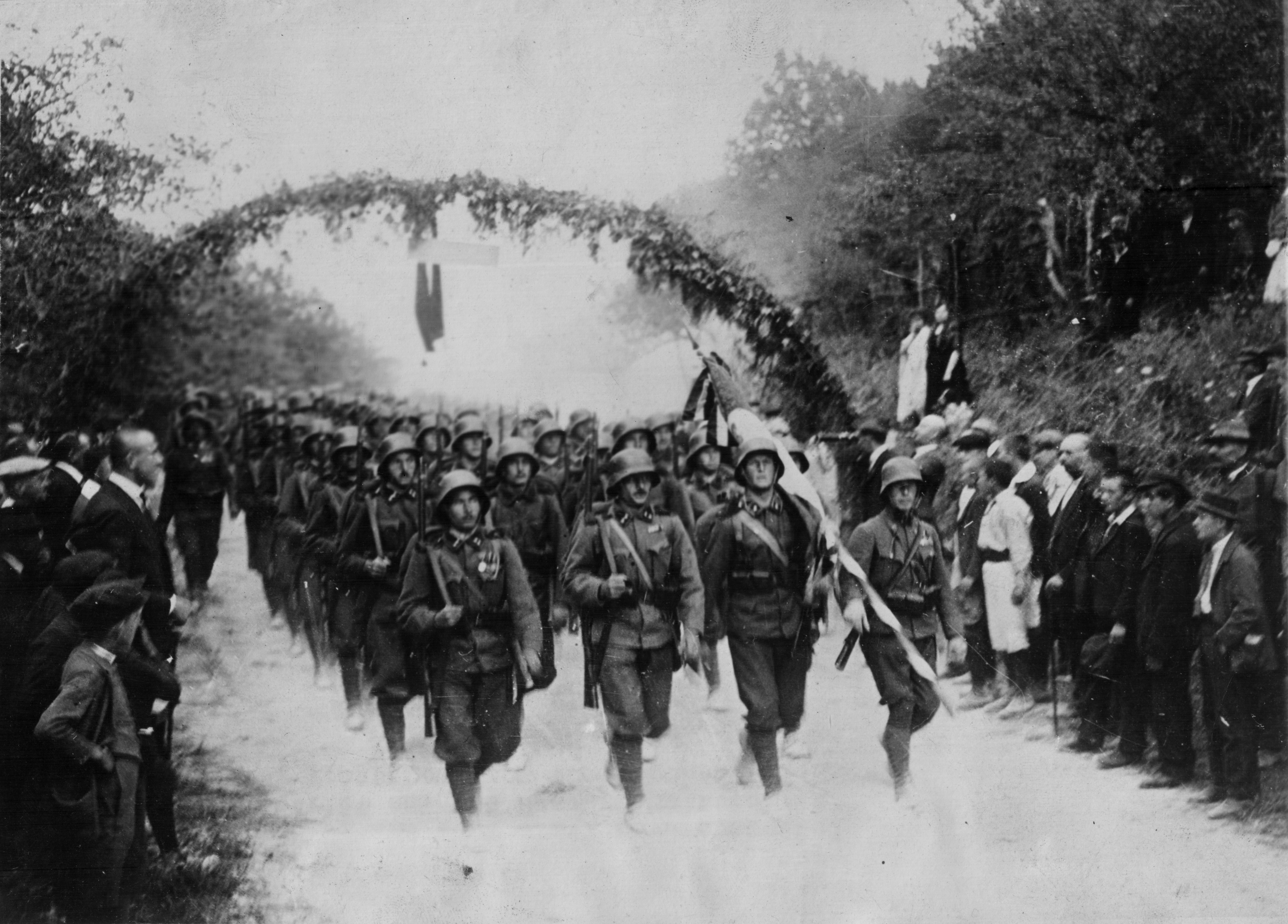 Hungarian troops reoccupy Baránya after Serbian troops left in August 1921. The "Republic of Baránya", controlled by workers and leftist refugees from Hungary under Serbian officers refused to request separation from the rest of the country.